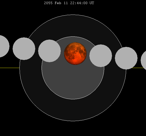 February 2055 lunar eclipse chart of moon's path through the earth's shadow. thumb